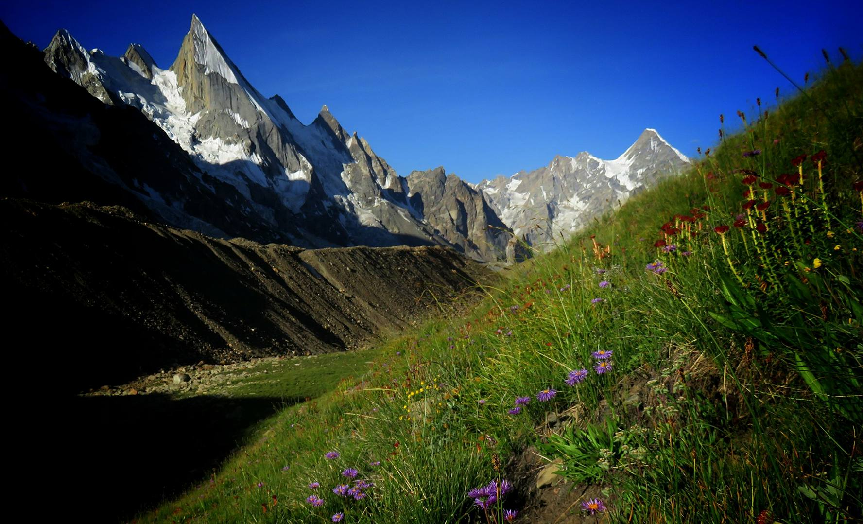 View of Laila Peak